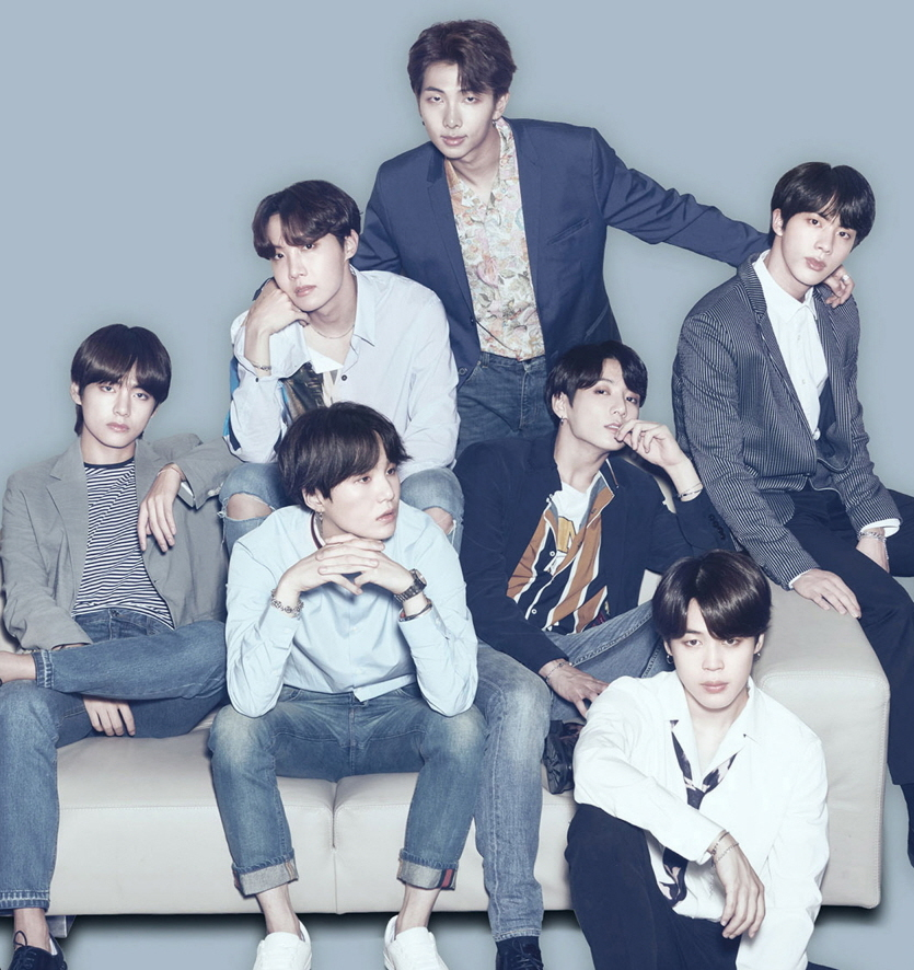 Advertisement for the LG Q7 x BTS campaign